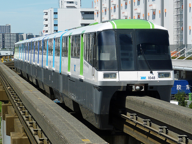 Reliveried Tokyo Monorail 1000 series EMU set 1043 approaching Ryutsu Center Station